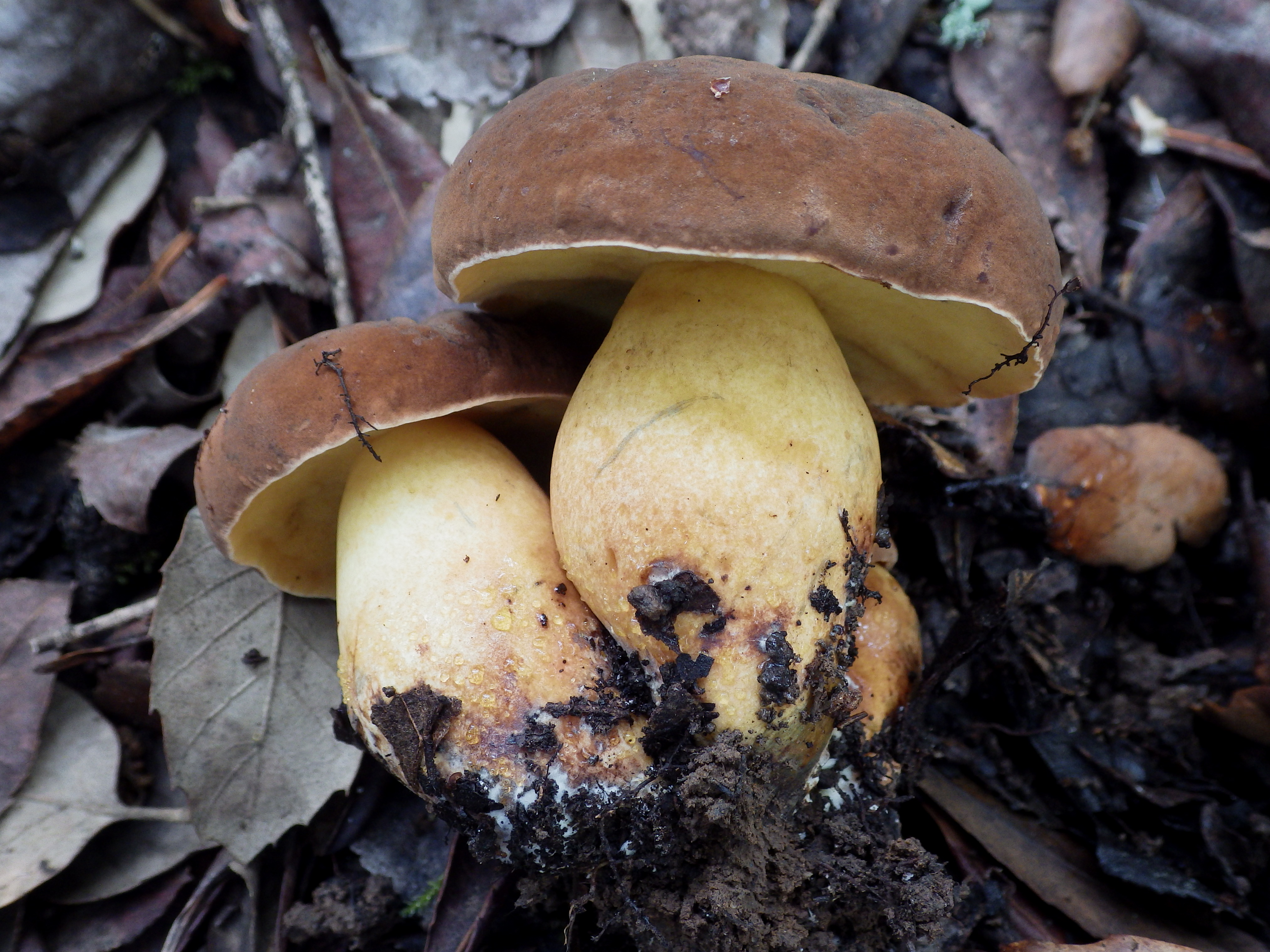 Fruit bodies of the bolete fungus Boletus fragrans Vittad.; found in Parque de Monsanto, Lisboa, Portugal.